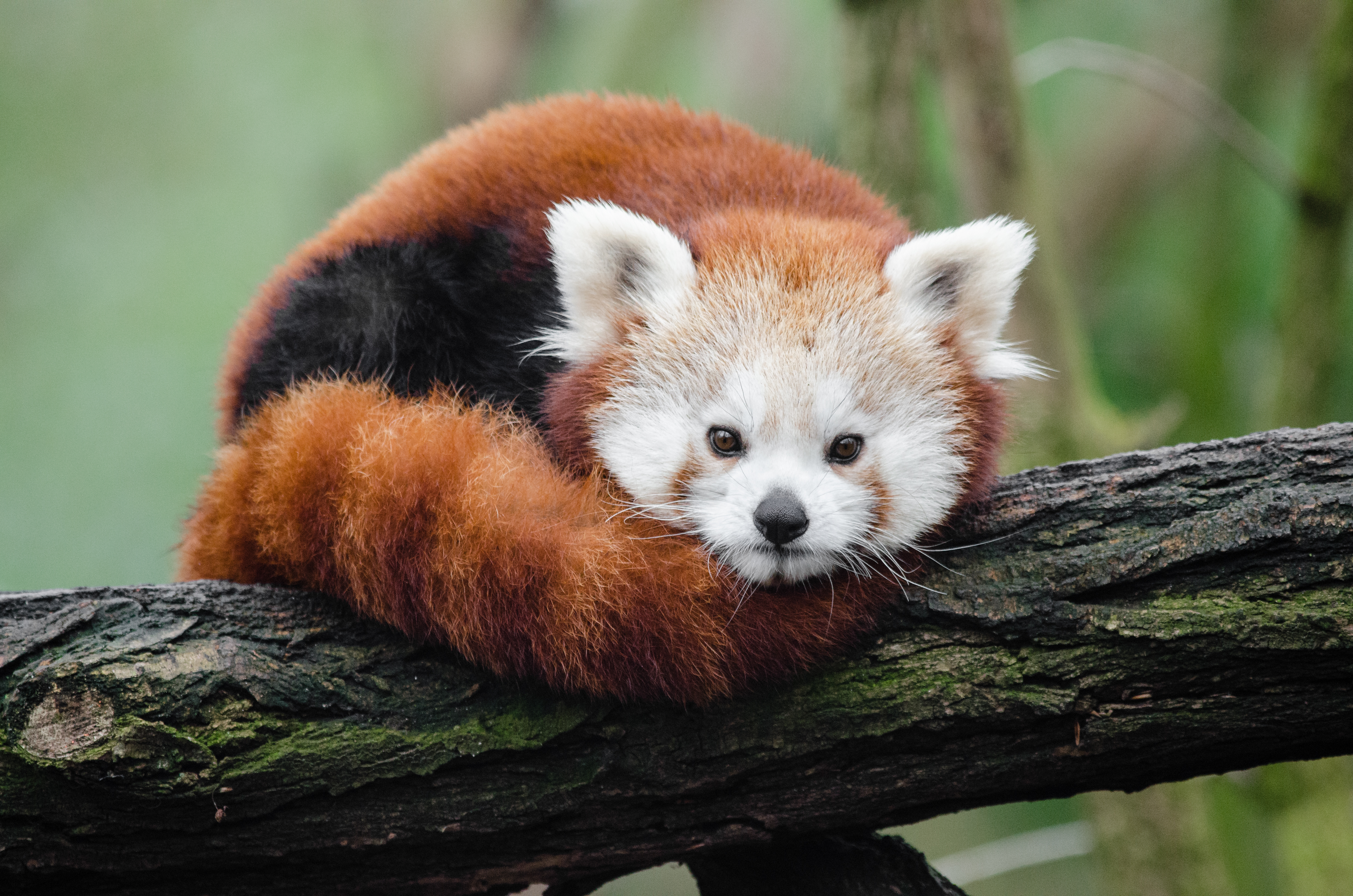 Red Panda